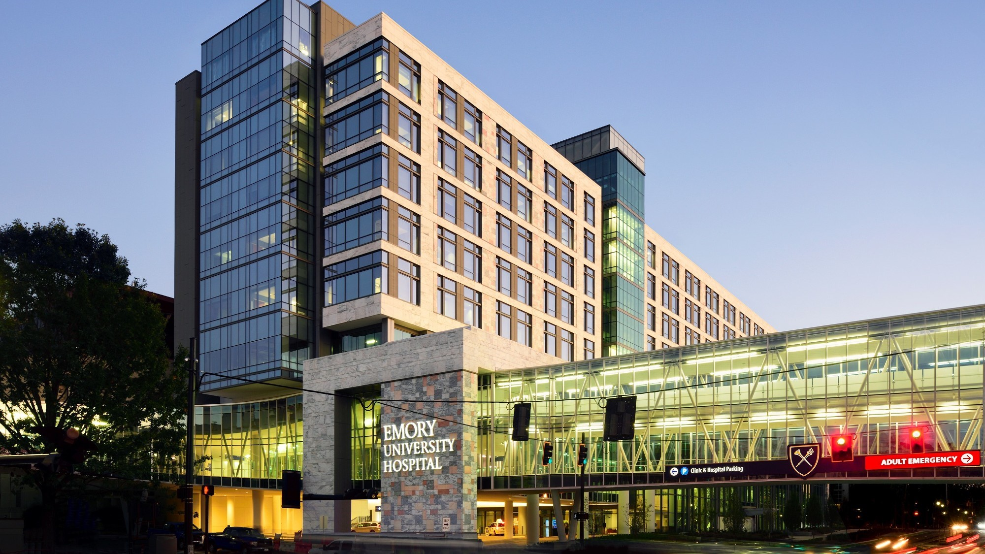 Exterior photo of Emory University Hospital.